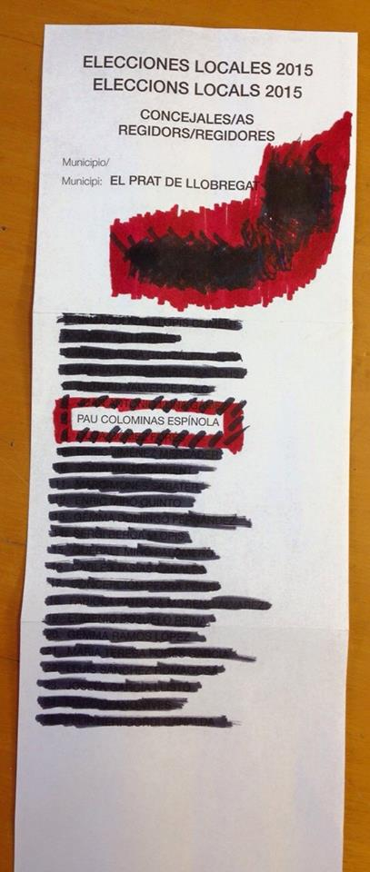 Spoilt vote casted in El Prat de Llobregat local election on 24th May 2015. The voter blanked in the ballot paper out the party name, its logo, and the name of every candidate but one.